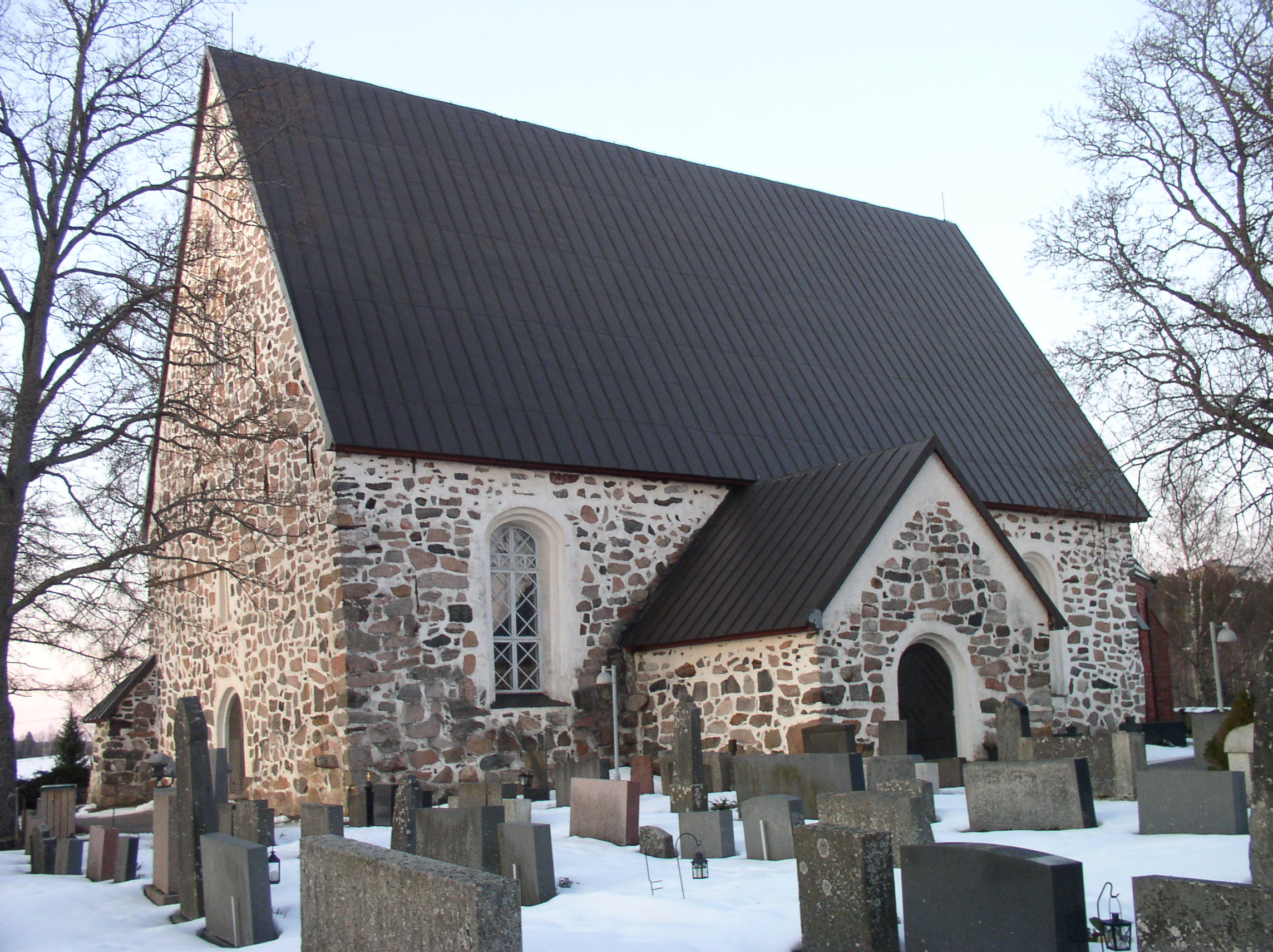 Lieto church in Lieto, Finland.